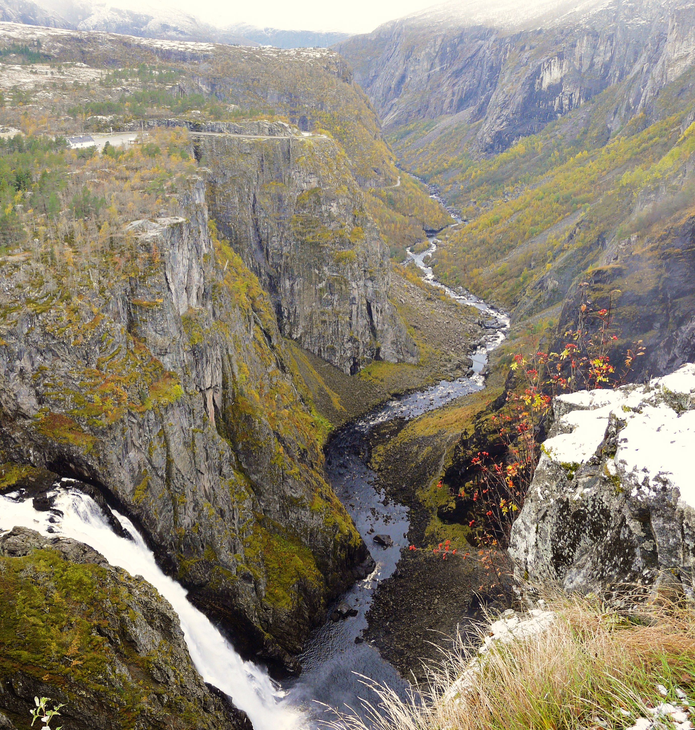 A view to Måbødalen from Fossli in 2009 October.